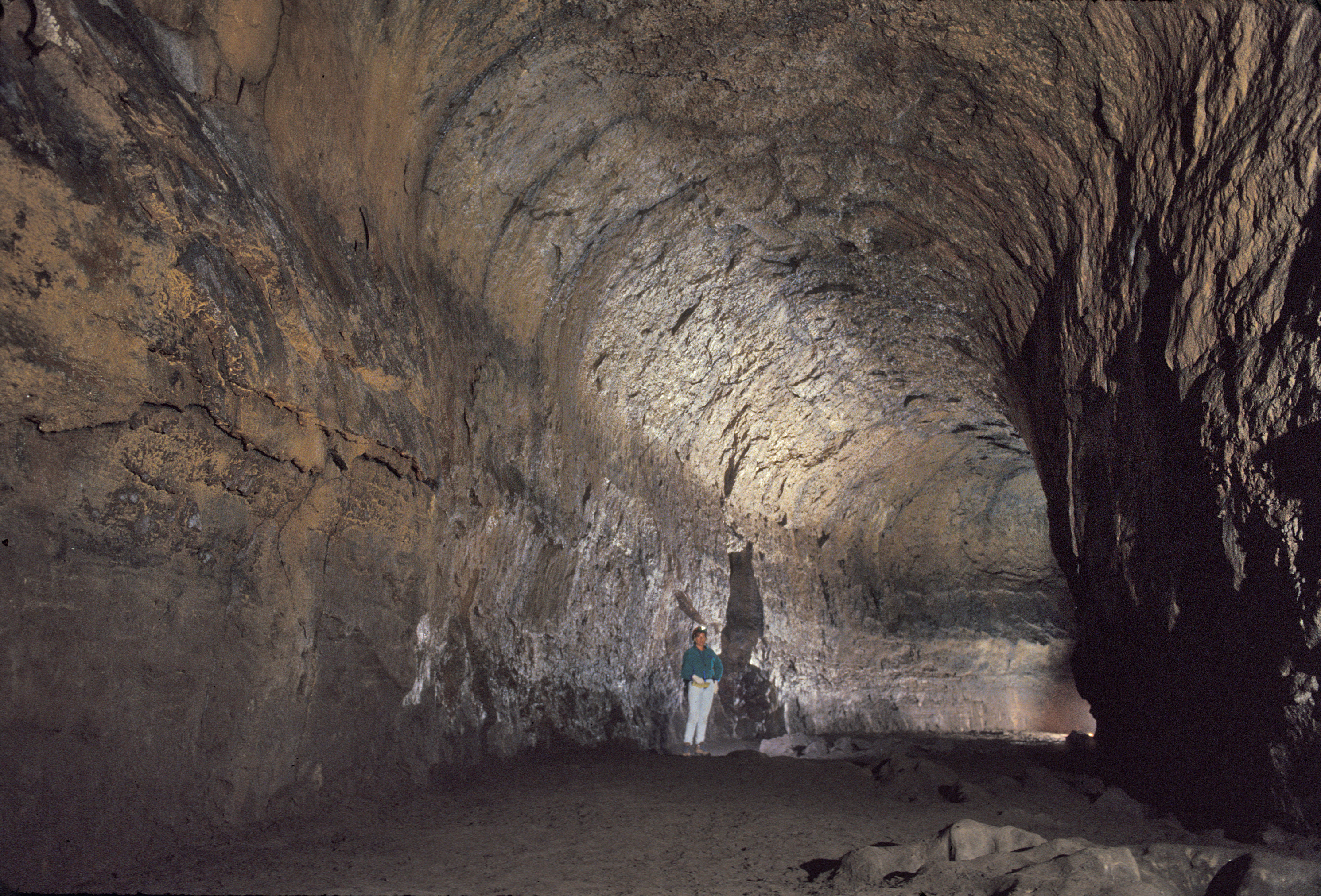 Arched ceilings in a typical portion of Lava River Cave. The size of the passage make for easy walking.